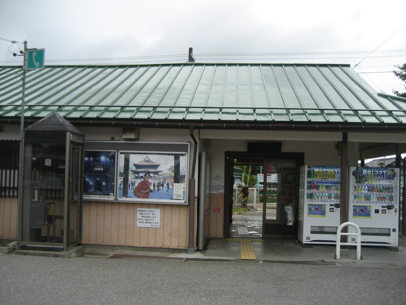 JR East Shinano-Matsukawa Station